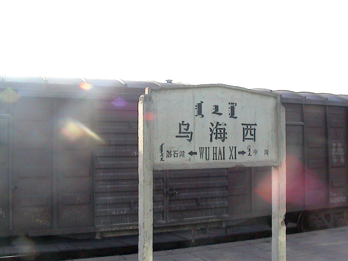 Wuhai West railway station This image was taken by User:Yaohua2000 at 2006-04-22 09:53:42 UTC.